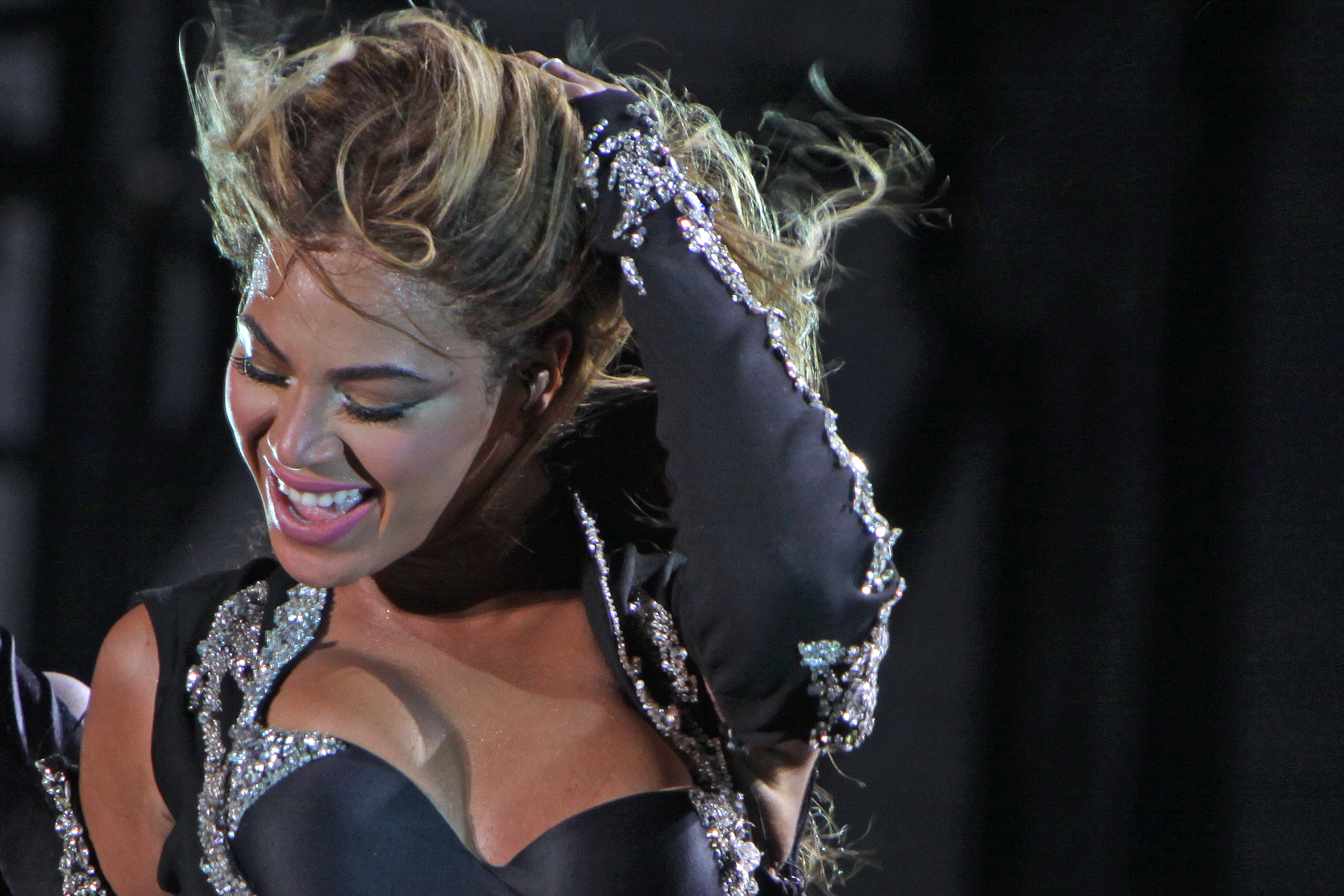 Beyonce looks down at her fans during her performance at the Summer Sonic Music Festival held from Aug. 7-9 in Osaka. Japan was a brief stop for Beyonce who has been on a world tour for the past six months.